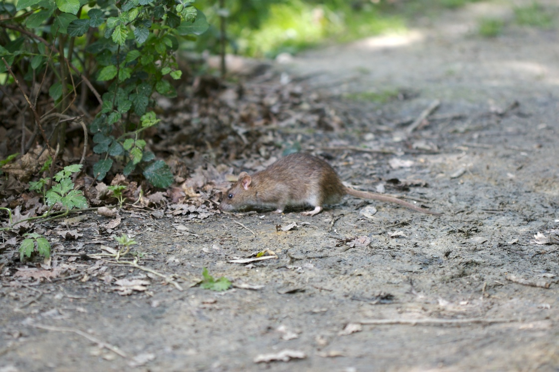 It's a Rat!!